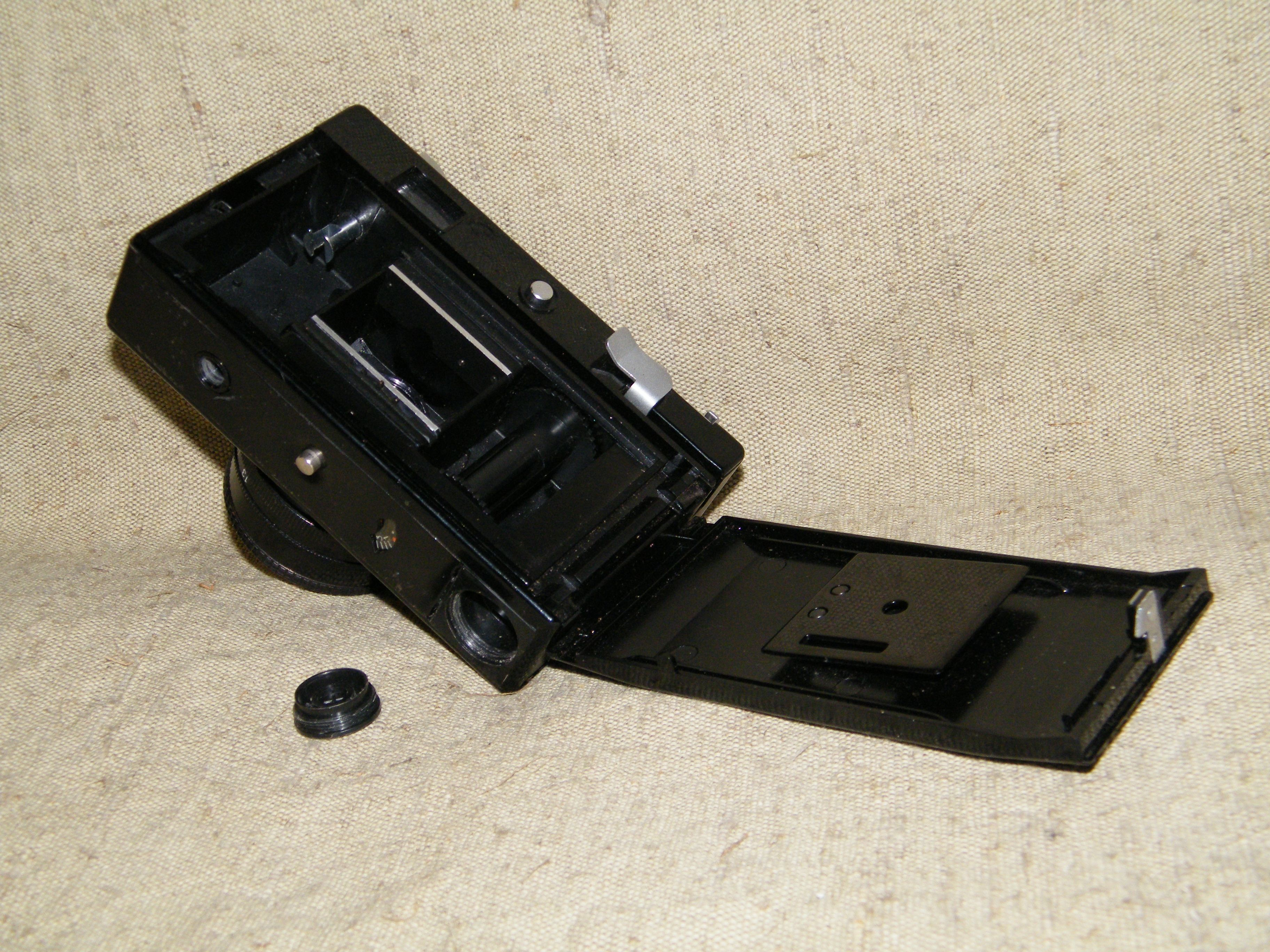 Orion EE